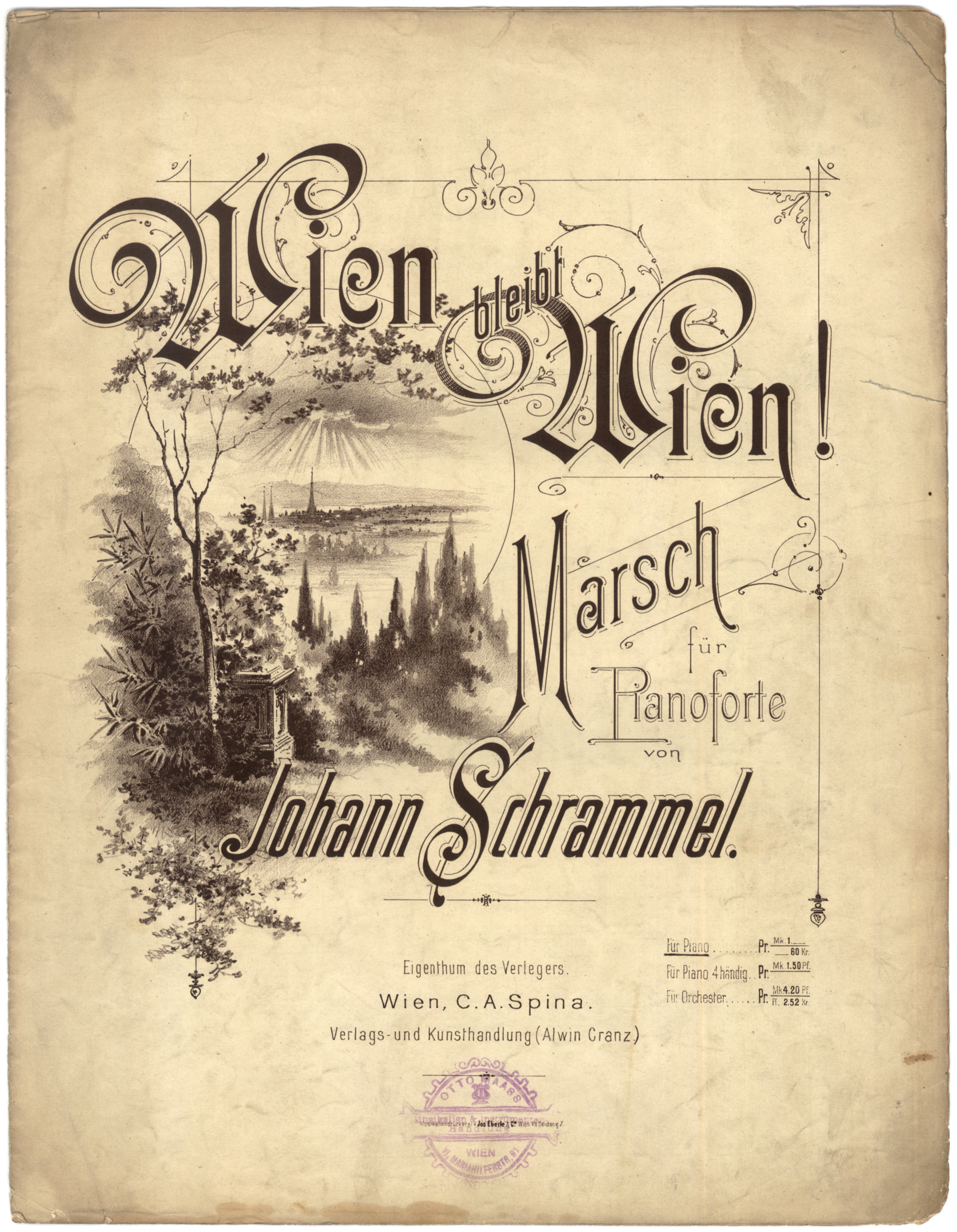 Johann Schrammel: "Wien bleibt Wien", march